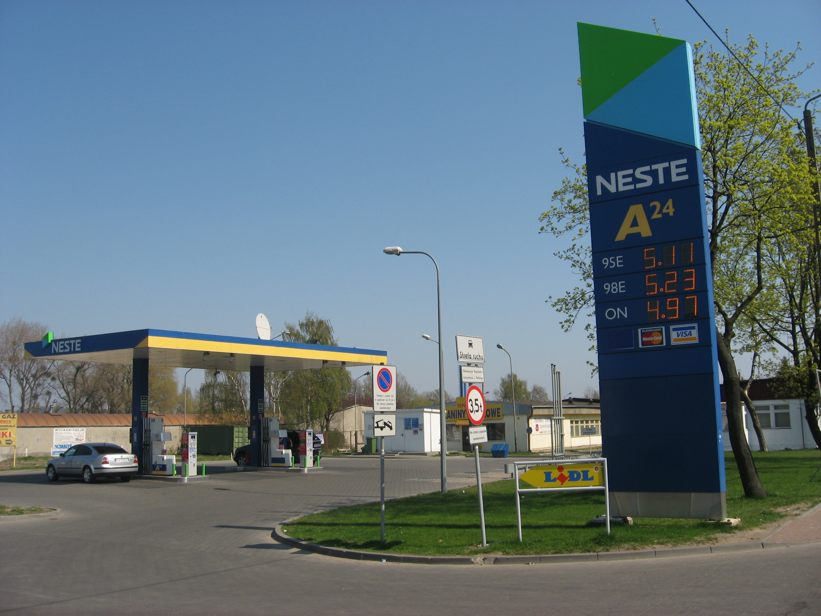 Neste A24 oil petrol stations in Gdynia Chylonia on Chylońska street